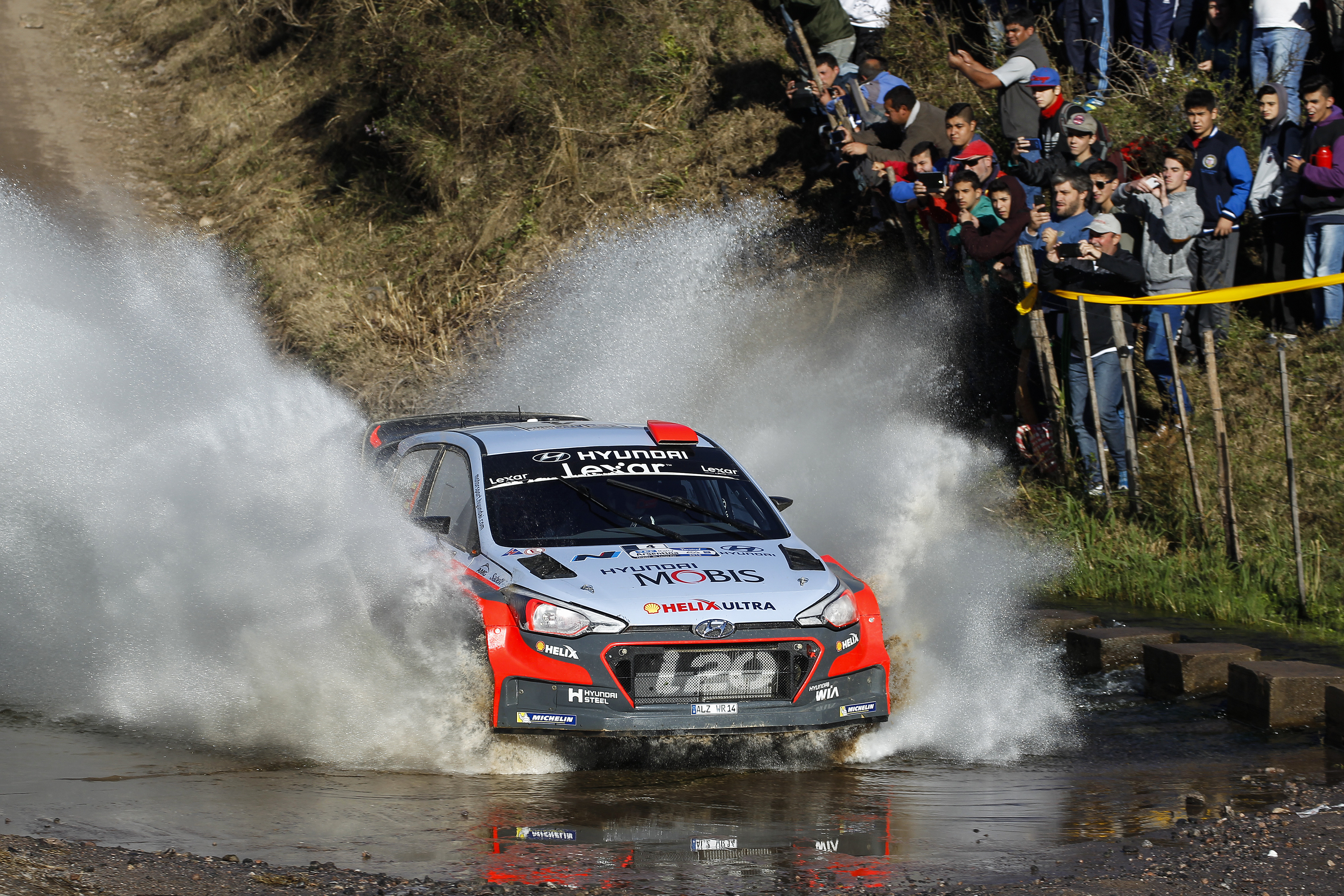 2016 FIA World Rally Championship / Round 04 / Rally Argentina // Dani Sordo and co-driver Marc Martí in their Hyundai i20 WRC.